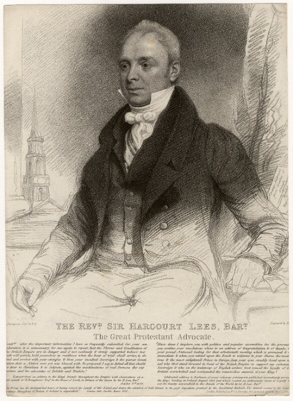 Portrait of Sir Harcourt Lees, 2nd Baronet (1776–1852), Irish Protestant cleric and pamphleteer.